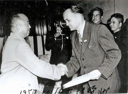 Wuhan Yangtze River Bridge opened to traffic on October 15, 1957. The team leader of Soviet engineers, Konstantin S. Silin, awarded honorary certificate by China's Railway Minister Teng Daiyuan